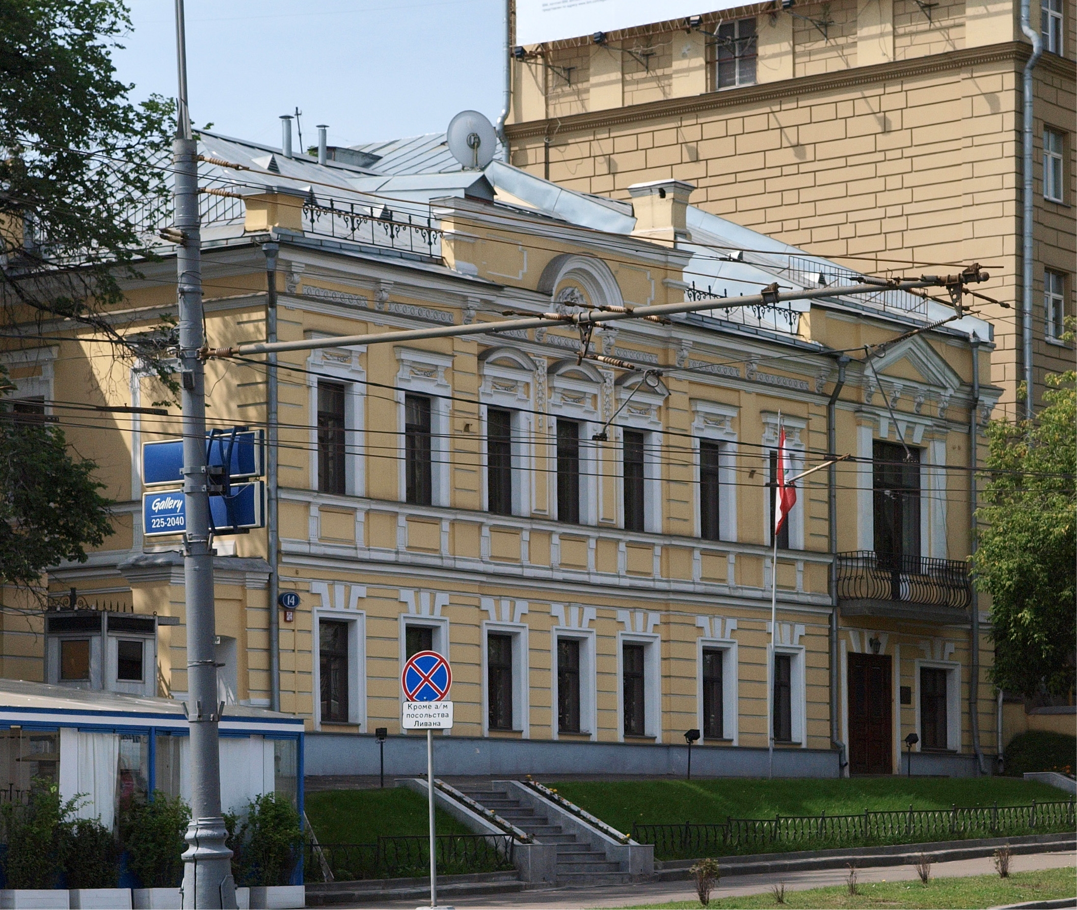 Embassy of Lebanon in Moscow